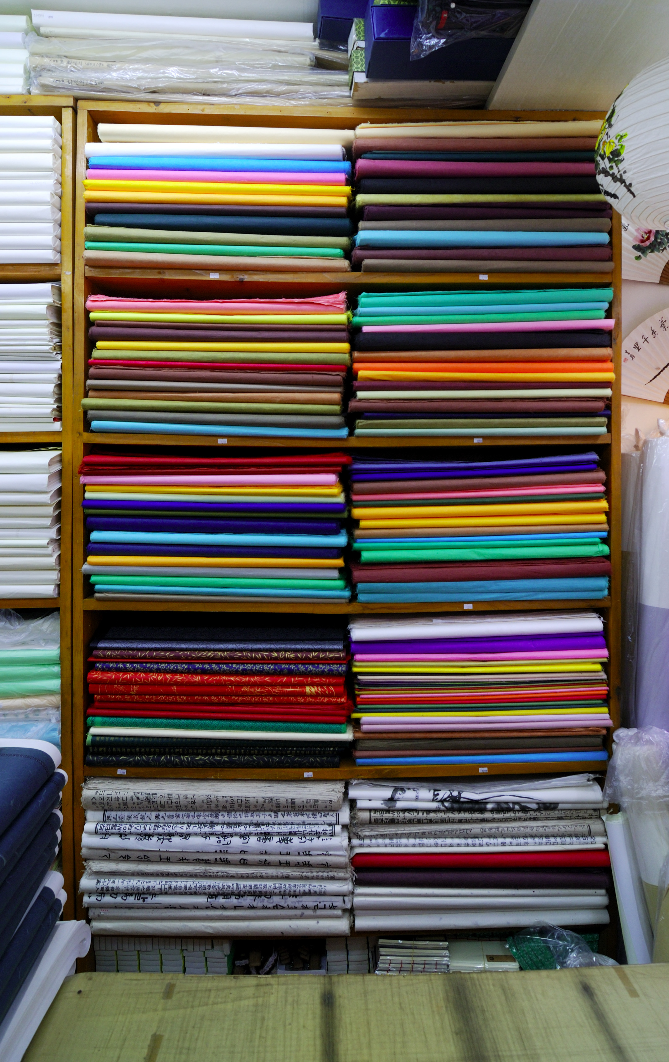 Hanji paper for sale in a paper store at Insadong, Seoul, South-Korea